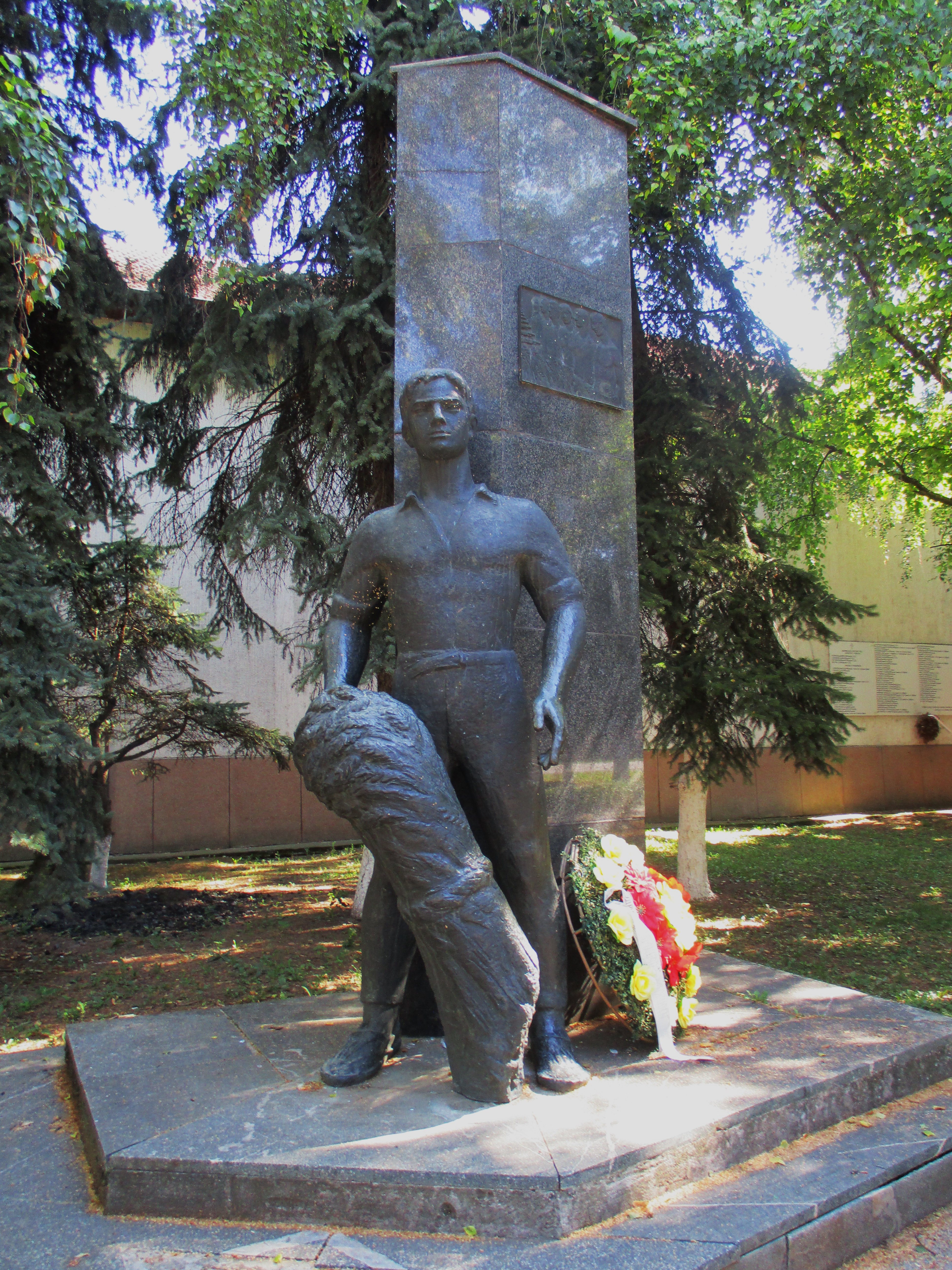 Monument in village Iđoš (municipality Kikinda). Dedicated to warriors in WWII. Author of memorial is Ljubica Tapavički.